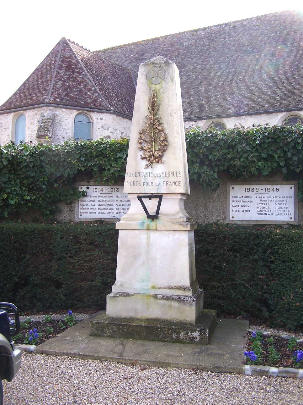 War memorial of Les Mesnuls (Yvelines, France)